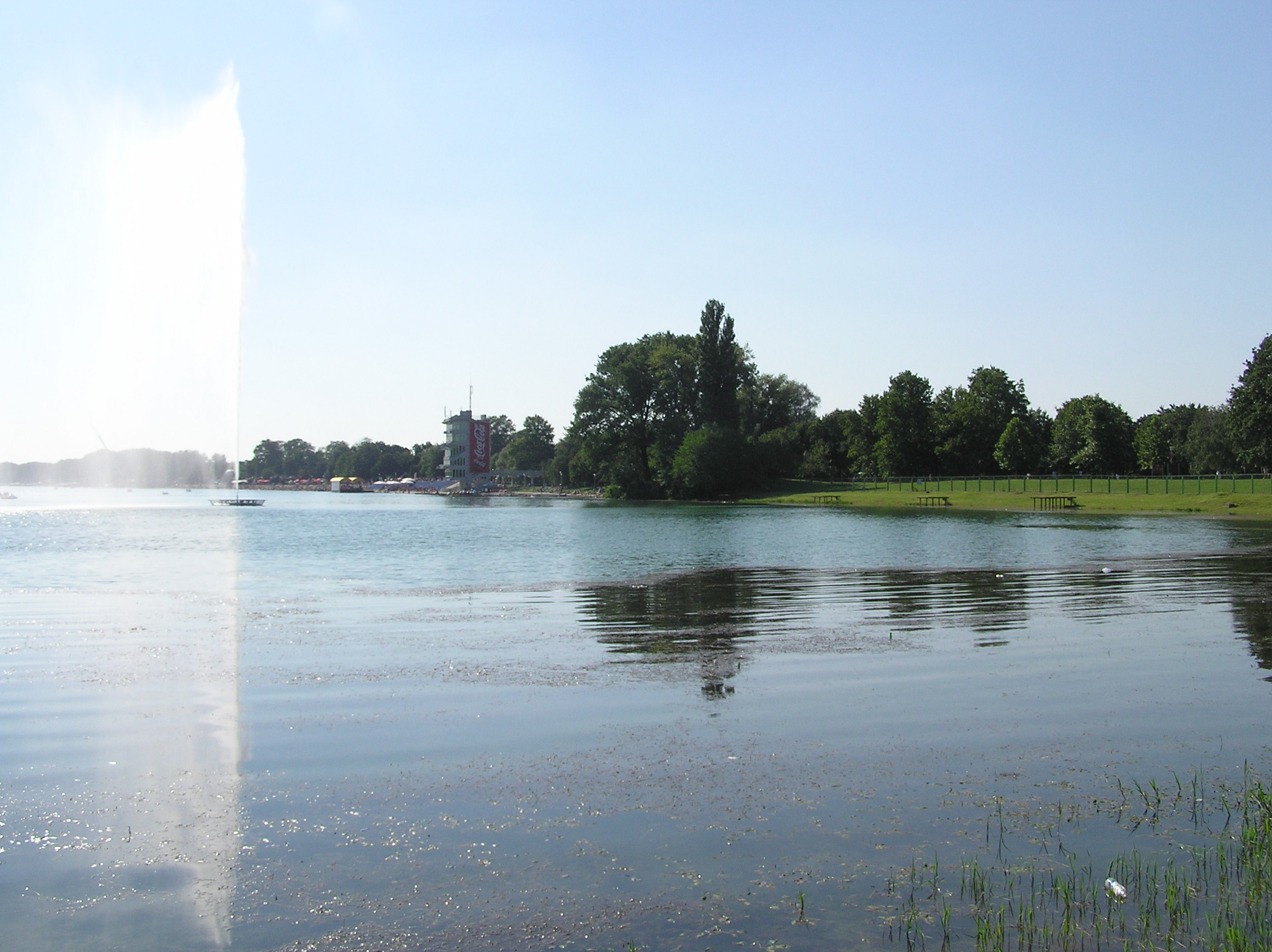 Ada Ciganlija, an island in the Danube river